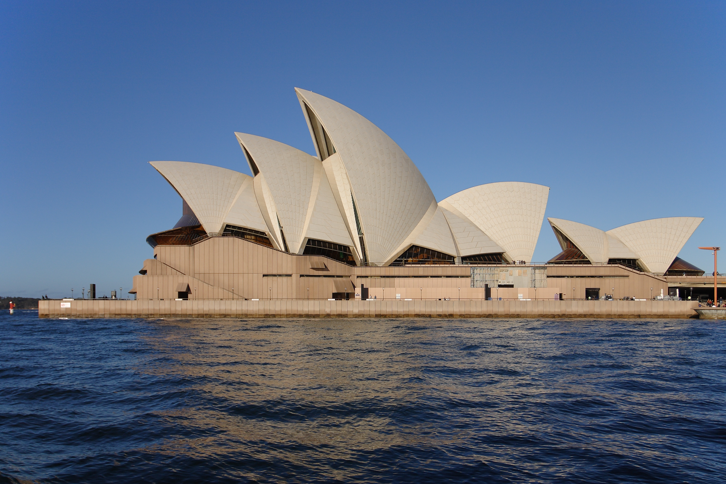 Sydney Opera House viewed from the side